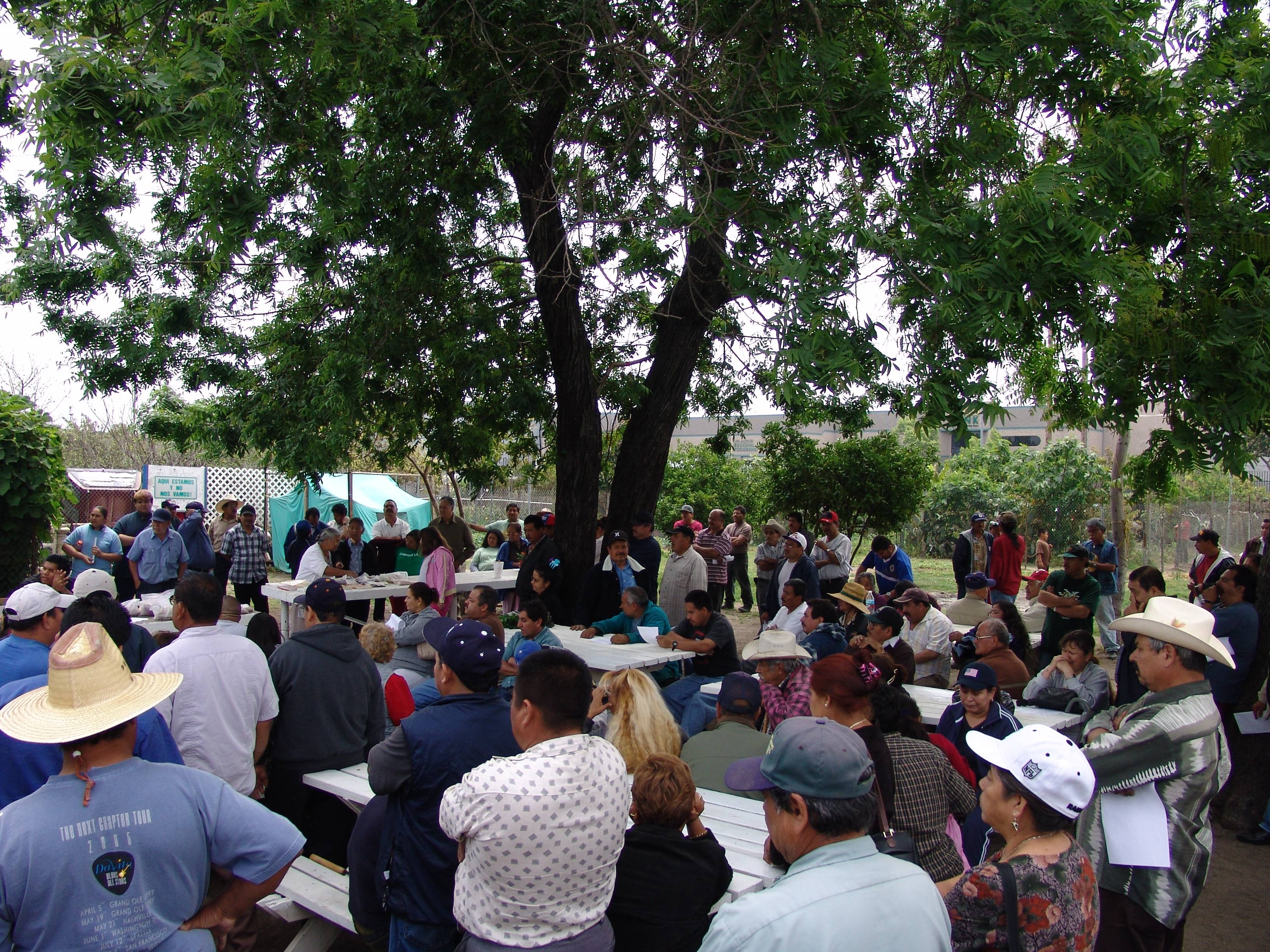 South Central Farm in the city of Los Angeles California. The 14 acres located at 41st and Alameda St. is one of the largest urban gardens in the United States.